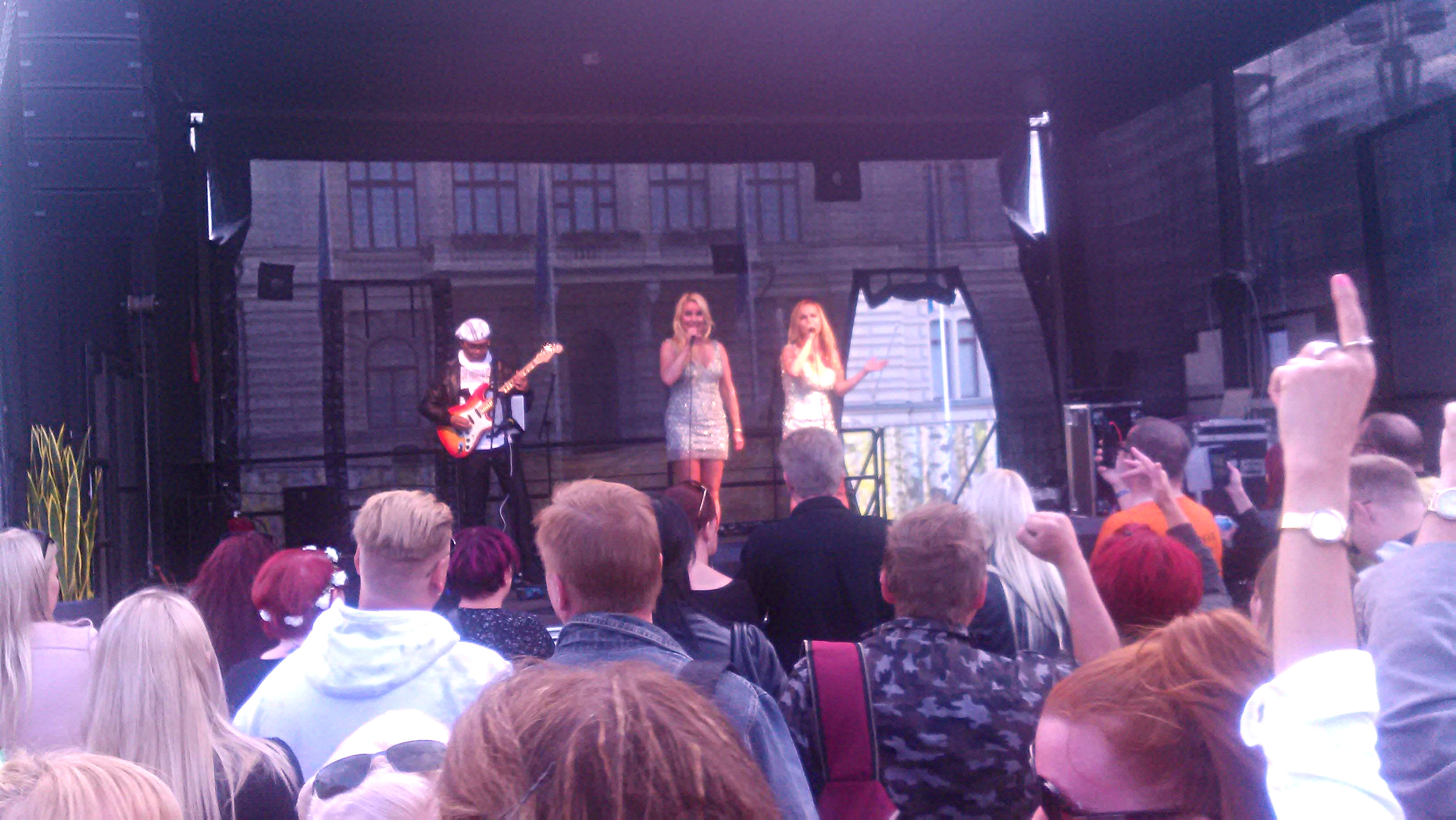 CatCat @Tammerfest, 22.07.2017, Tampere, Finland